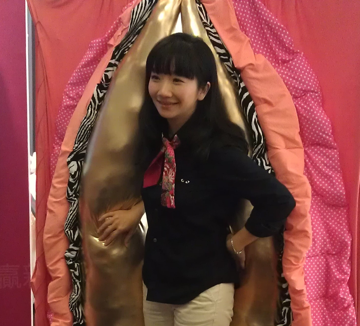 Matilda Tao emerging from a curtain door that resembles the vagina. 2012 Vagina Monologues press conference in Taipei, Taiwan.